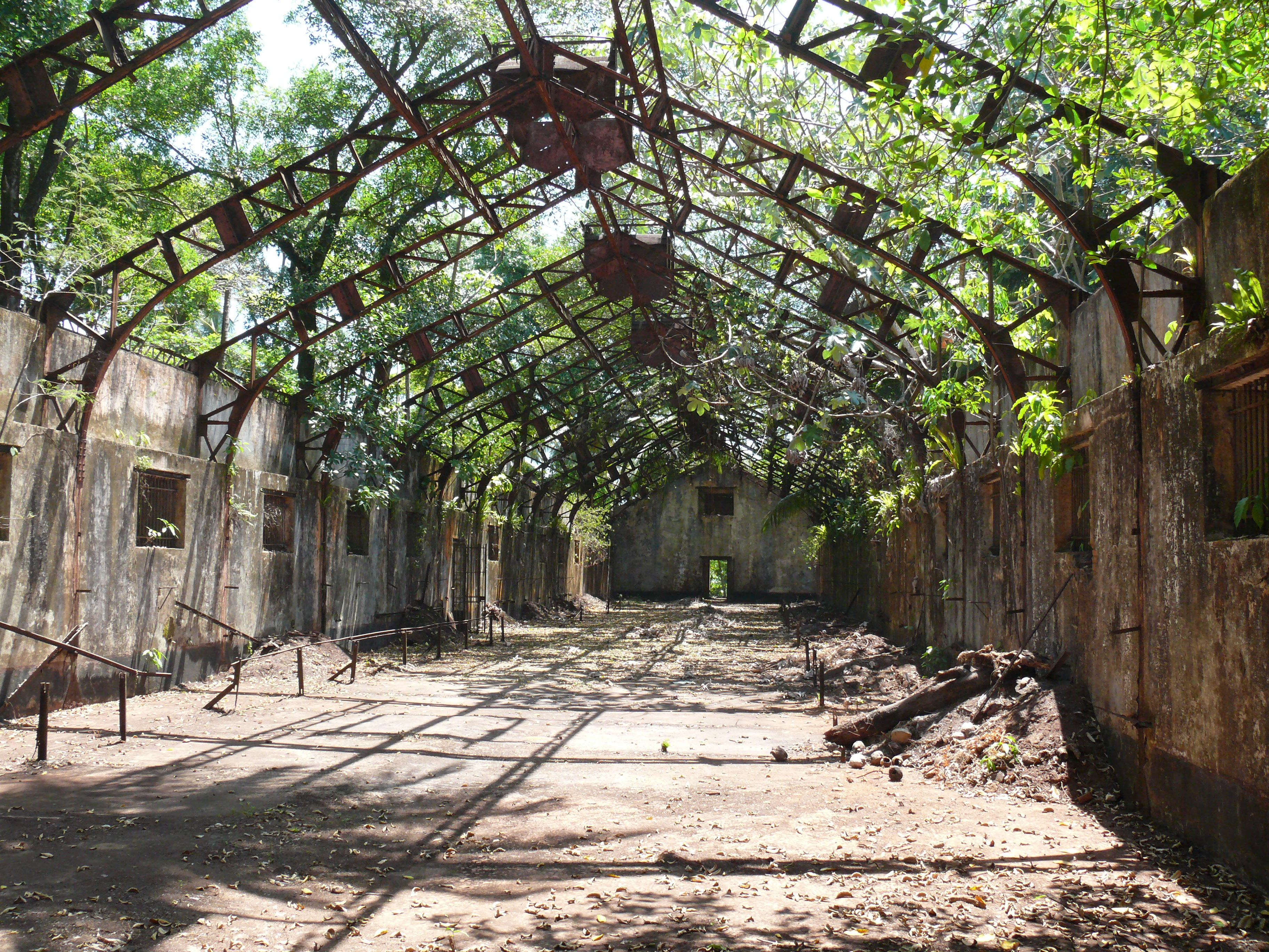 Prison building on Saint Joseph's Island, in French Guiana.